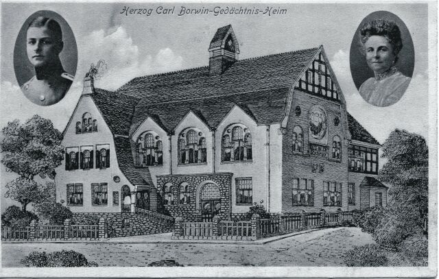 Postcard showing the house of the Herzog-Carl-Borwin-Gedächtnisstiftung in Neustrelitz with images of the late Duke Carl Borwin and his mother Grand Duchess Elisabeth